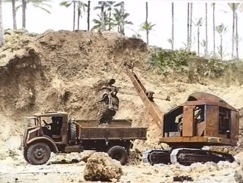 A power shovel operated by the Australian Army's 2/3rd Railway Construction Company unloading gravel to be used for road building in the Jacquinot Bay area into a truck. Colorized photograph